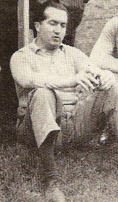 Alberto Ascari. Crop of pic described below.